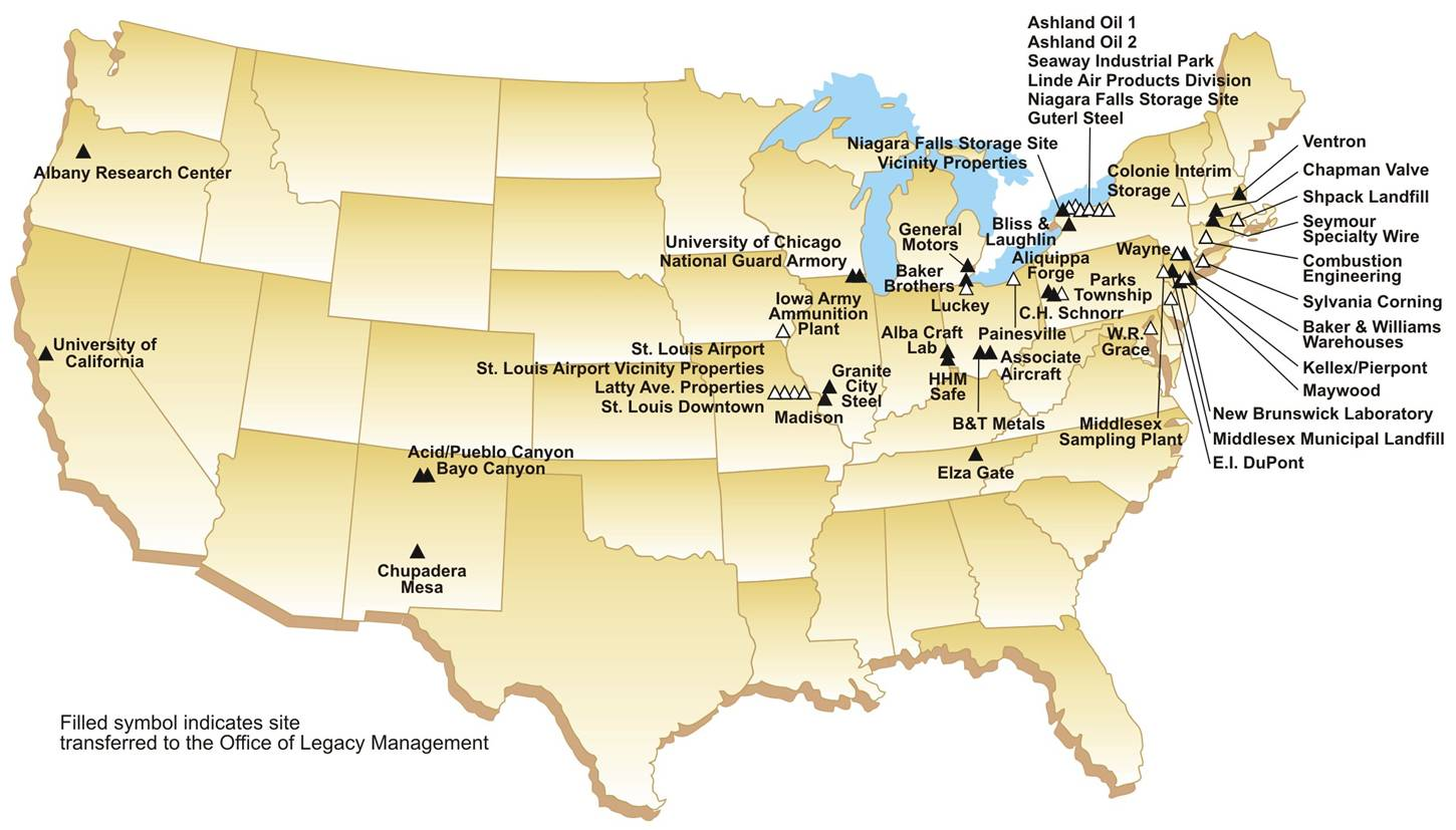 The Formerly Utilized Sites Remedial Action Program (FUSRAP) is an environmental cleanup program of radiation contamination. This map indicate site involved in this program.